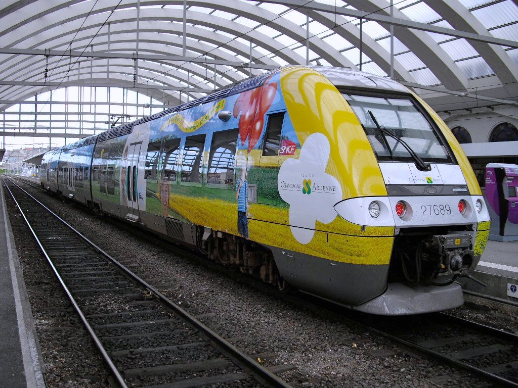 SNCF Class Z 27689 (AGV) in Gare de Reims.